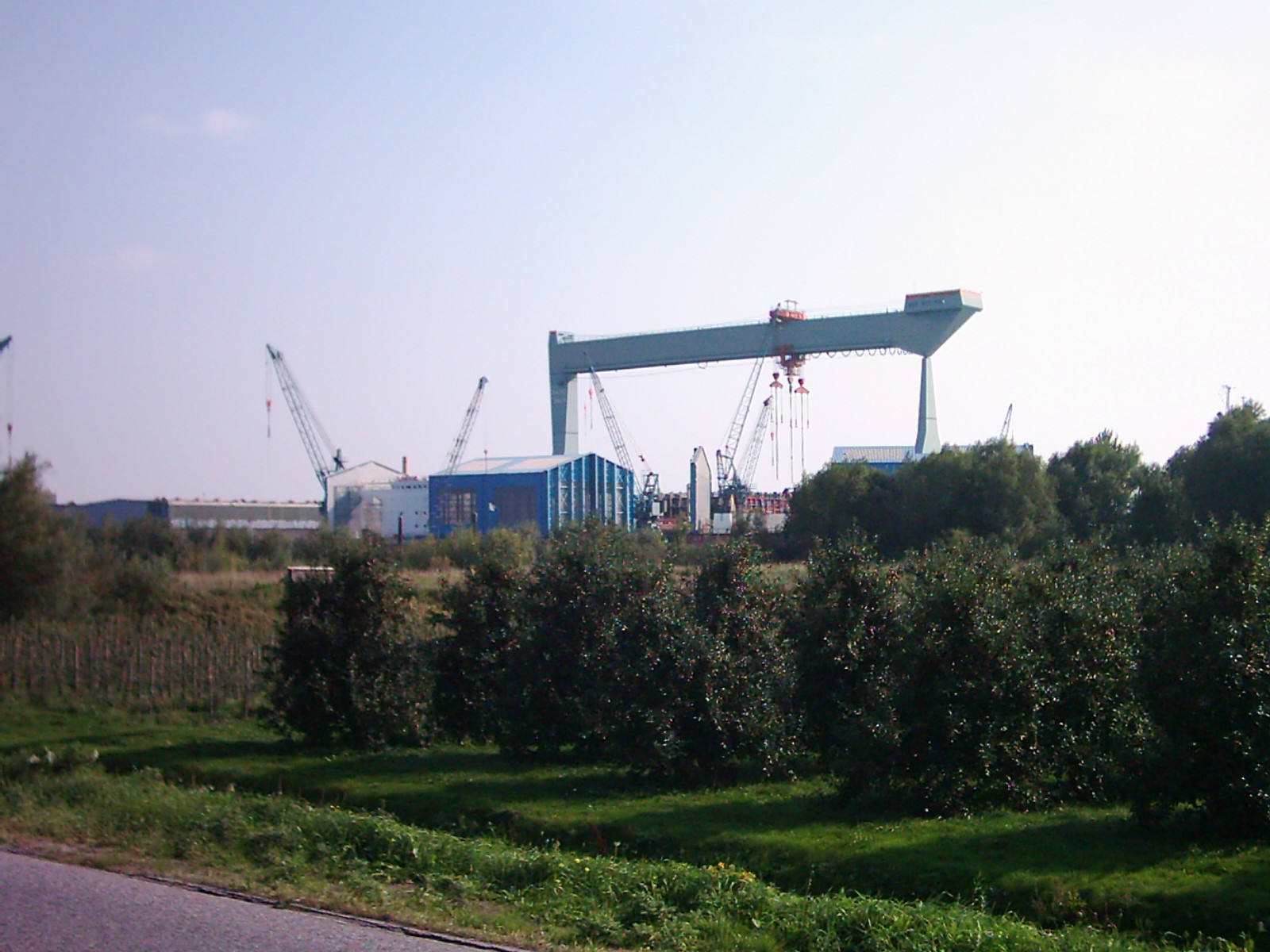 Portainer Sietas shipyard, Hamburg, Germany.